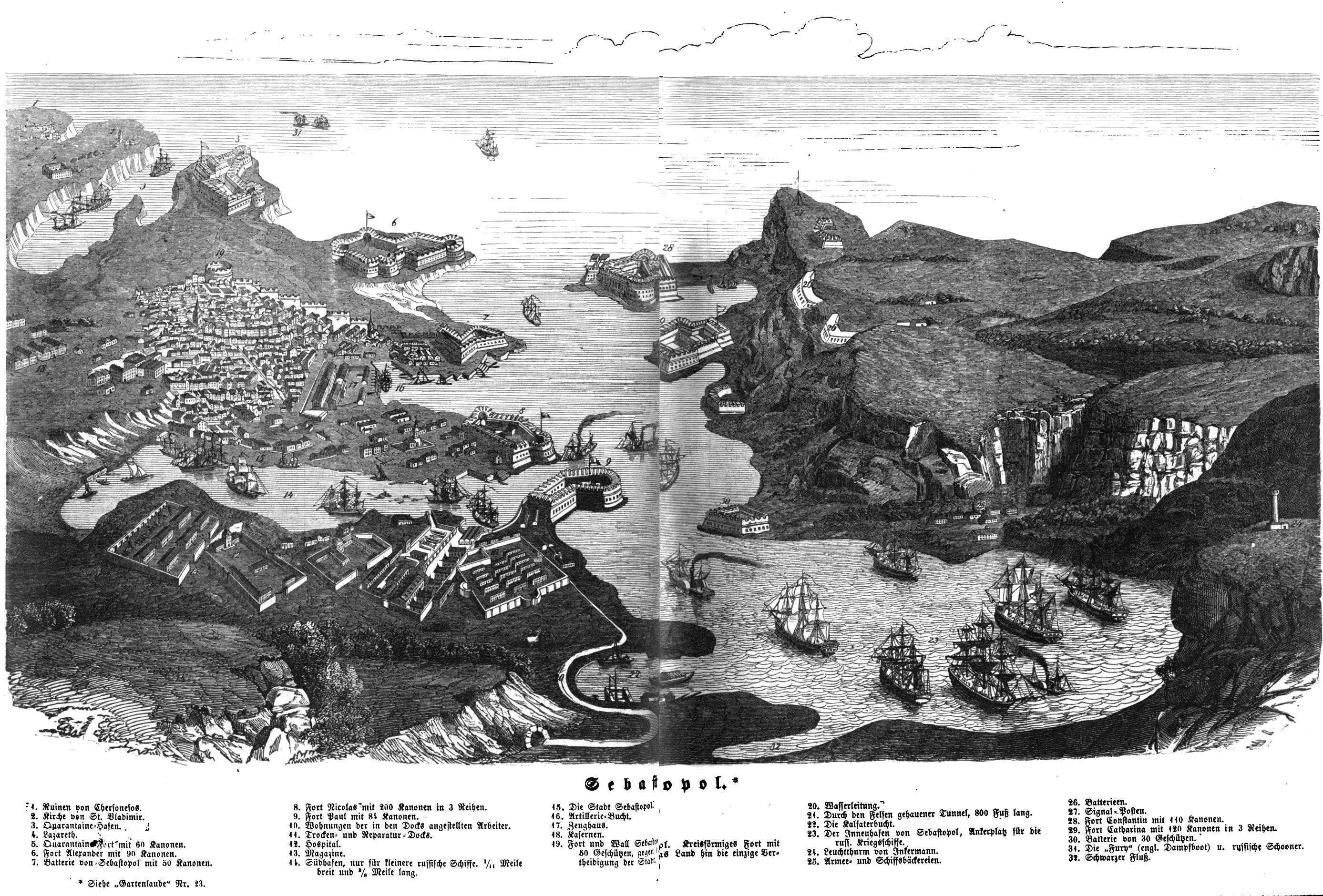 caption: "Sebastopol.[1]1. Ruinen von Chersonesos. 2. Kirche von St. Vladimir. 3. Quarantaine-Hafen. 4. Lazareth. 5. Quarantaine-Fort mit 60 Kanonen. 6. Fort Alexander mit 90 Kanonen. 7. Batterie von Sebastopol mit 50 Kanonen. 8. Fort Nicolas mit 200 Kanonen in 3 Reihen. 9. Fort Paul mit 84 Kanonen. 10. Wohnungen der in den Docks angestellten Arbeiter. 11. Trocken- und Reparatur-Docks. 12. Hospital. 13. Magazine. 14. Südhafen, nur für kleinere russische Schiffe. 1/11 Meile breit und 3/8 Meile lang. 15. Die Stadt Sebastopol. 16. Artillerie-Bucht. 17. Zeughaus. 18. Kasernen. 19. Fort und Wall Sebastopol. Kreisförmiges Fort mit 50 Geschützen, gegen das Land hin die einzige Vertheidigung der Stadt. 20. Wasserleitung. 21. Durch den Felsen gehauener Tunnel, 800 Fuß lang. 22. Die Kalfaterbucht. 23. Der Innenhafen von Sebastopol, Ankerplatz für die russ. Kriegsschiffe. 24. Leuchtthurm von Inkermann. 25. Armee- und Schiffsbäckereien. 26. Batterieen. 27. Signal-Posten. 28. Fort Constantin mit 110 Kanonen. 28. Fort Catharina mit 120 Kanonen in 3 Reihen. 30. Batterie von 30 Geschützen. 31. Die „Fury" (engl. Dampfboot) u. russische Schooner. 32. Schwarzer Fluß. ↑ Siehe „Gartenlaube“ Nr. 23. "